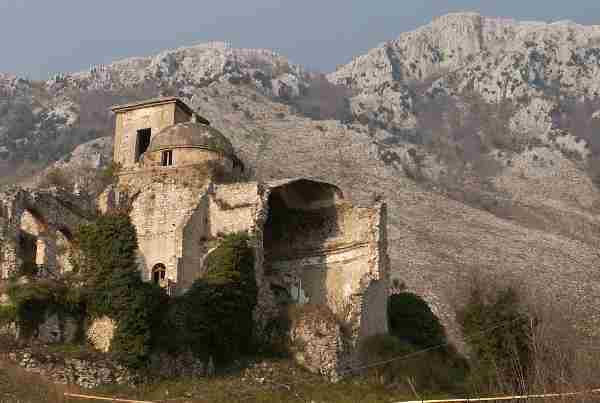 Private photo of San Pietro Infine (Italy) taken and uploaded by user Jeffmatt 07:45, 27 December 2006 (UTC)